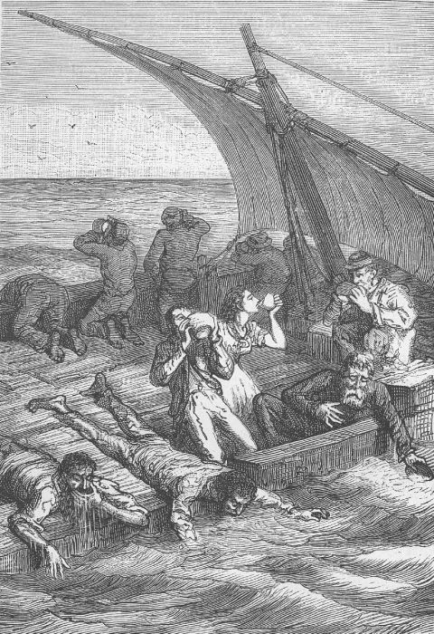 An ilustration from the novel "The Survivors of the Chancellor: Diary of J. R. Kazallon, Passenger" by Jules Verne drawn by Édouard Riou.